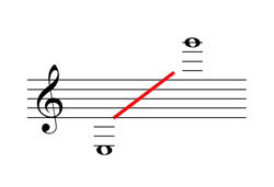 Written range for all types of clarinets.